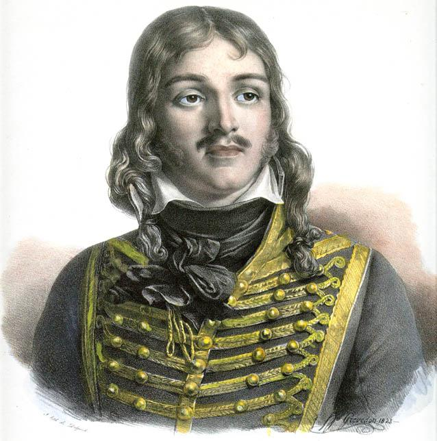 Portrait of François Séverin Desgraviers-Marceau.